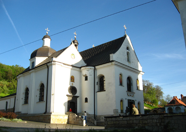 Lviv.Church of St. Onuphrius